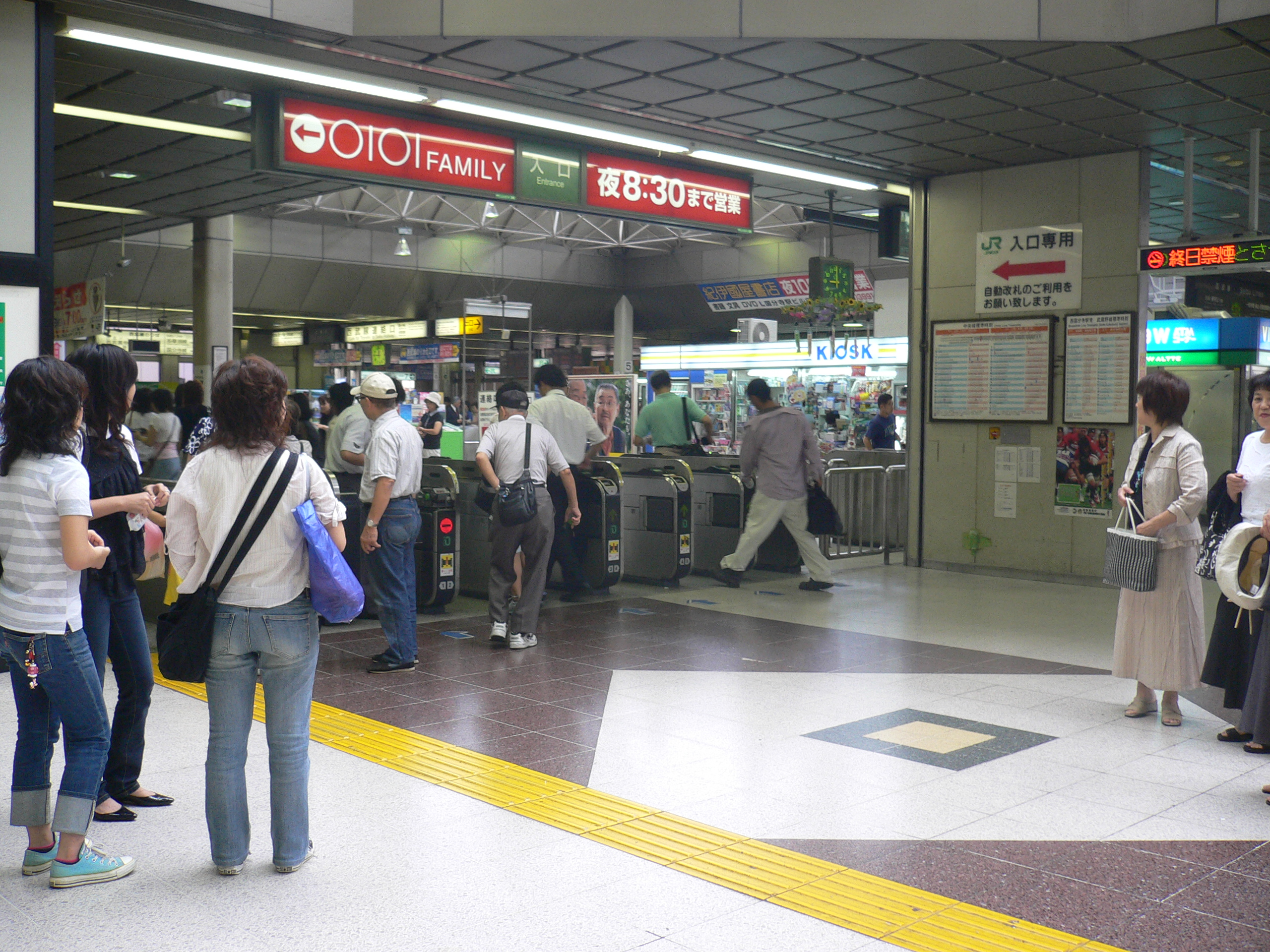 The JR East ticket barriers at Kokubunji Station in Kokubunji, Tokyo